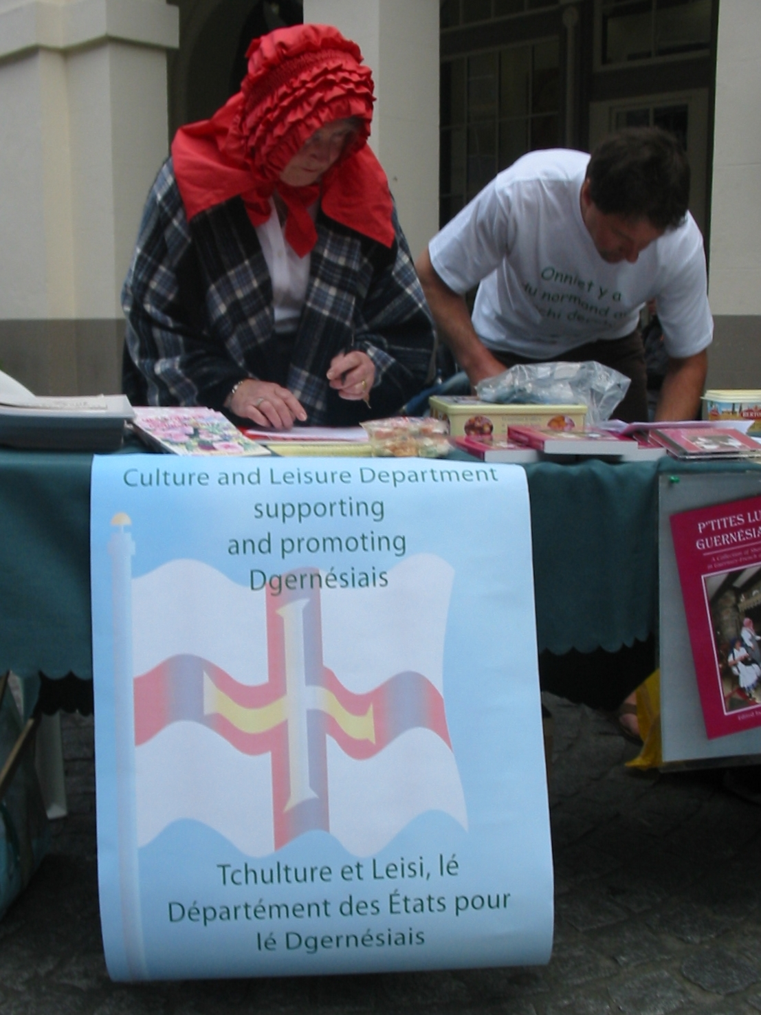 Fête Nouormande - Fêtes des Rouaisouns, Saint Peter Port, Guernsey, 23 May 2009